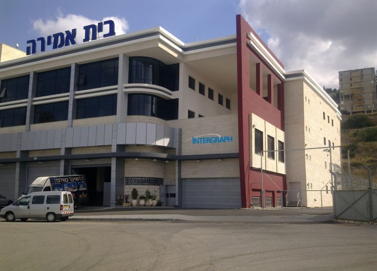 בניין אינטרגרף בנשר